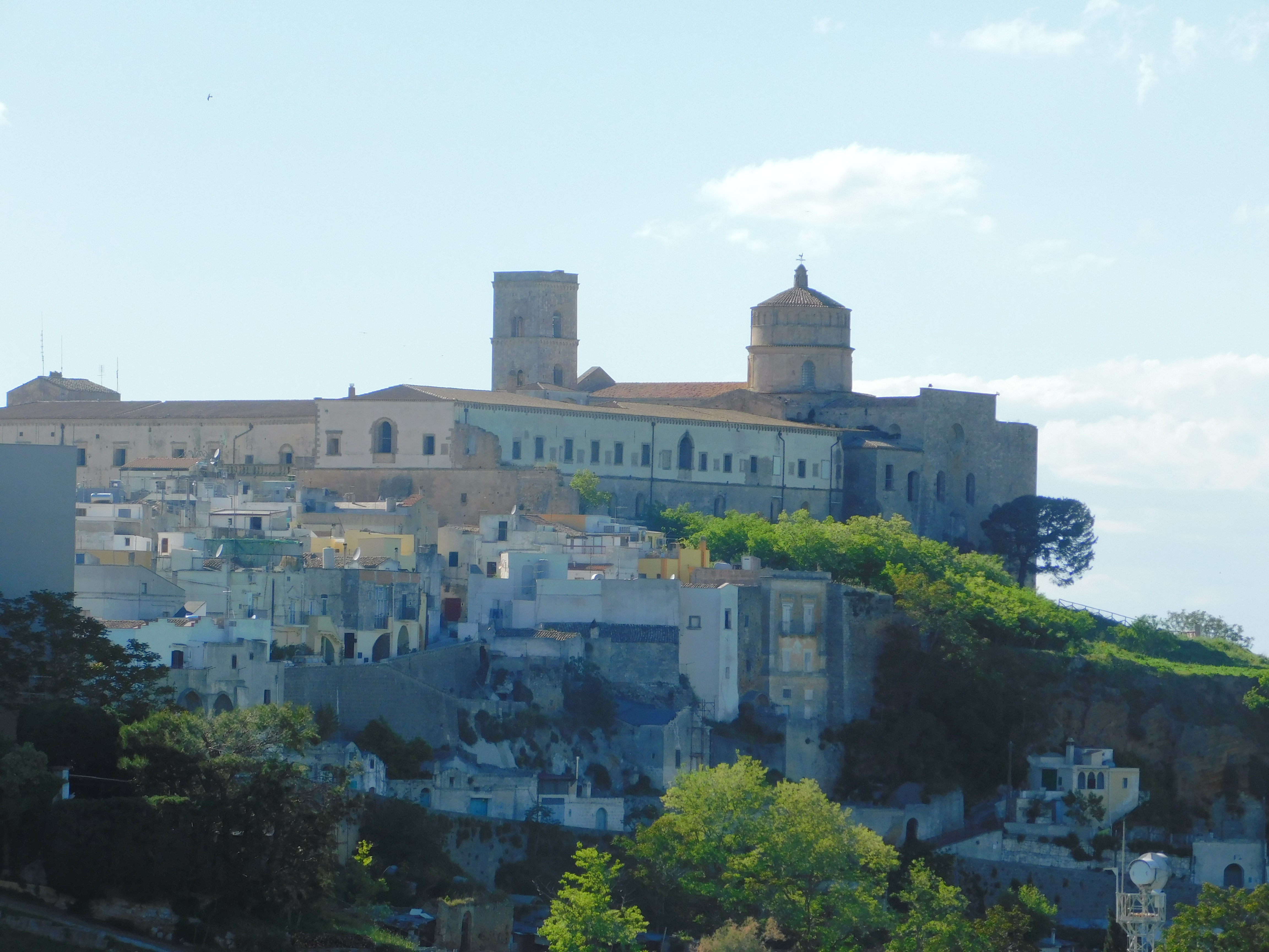 historical centre of Montescaglioso